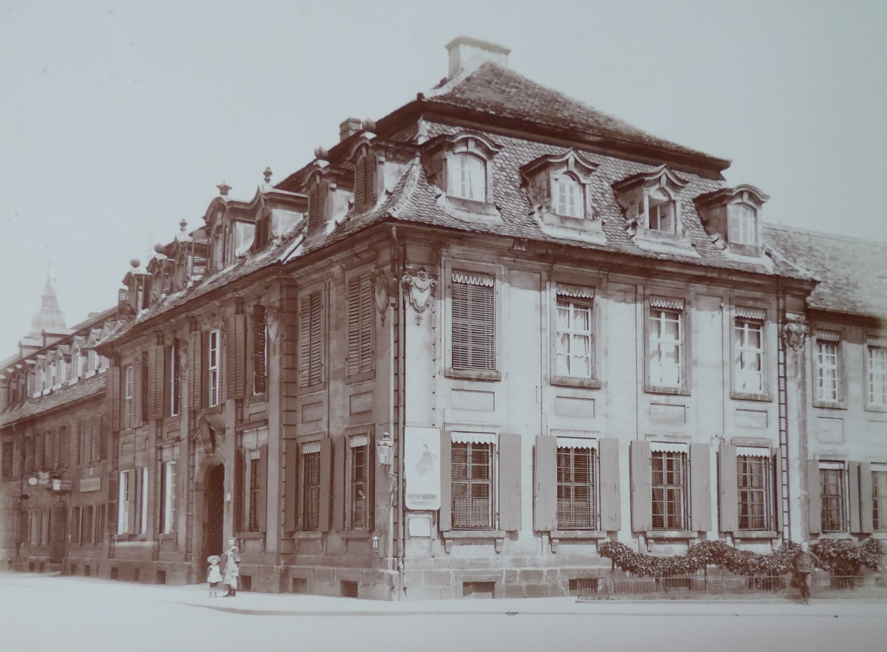 Views and photos of Bayreuth, Germany, gifted to Ferdinand I of Bulgaria to commemorate his 25-year rule. Former university from 1738.